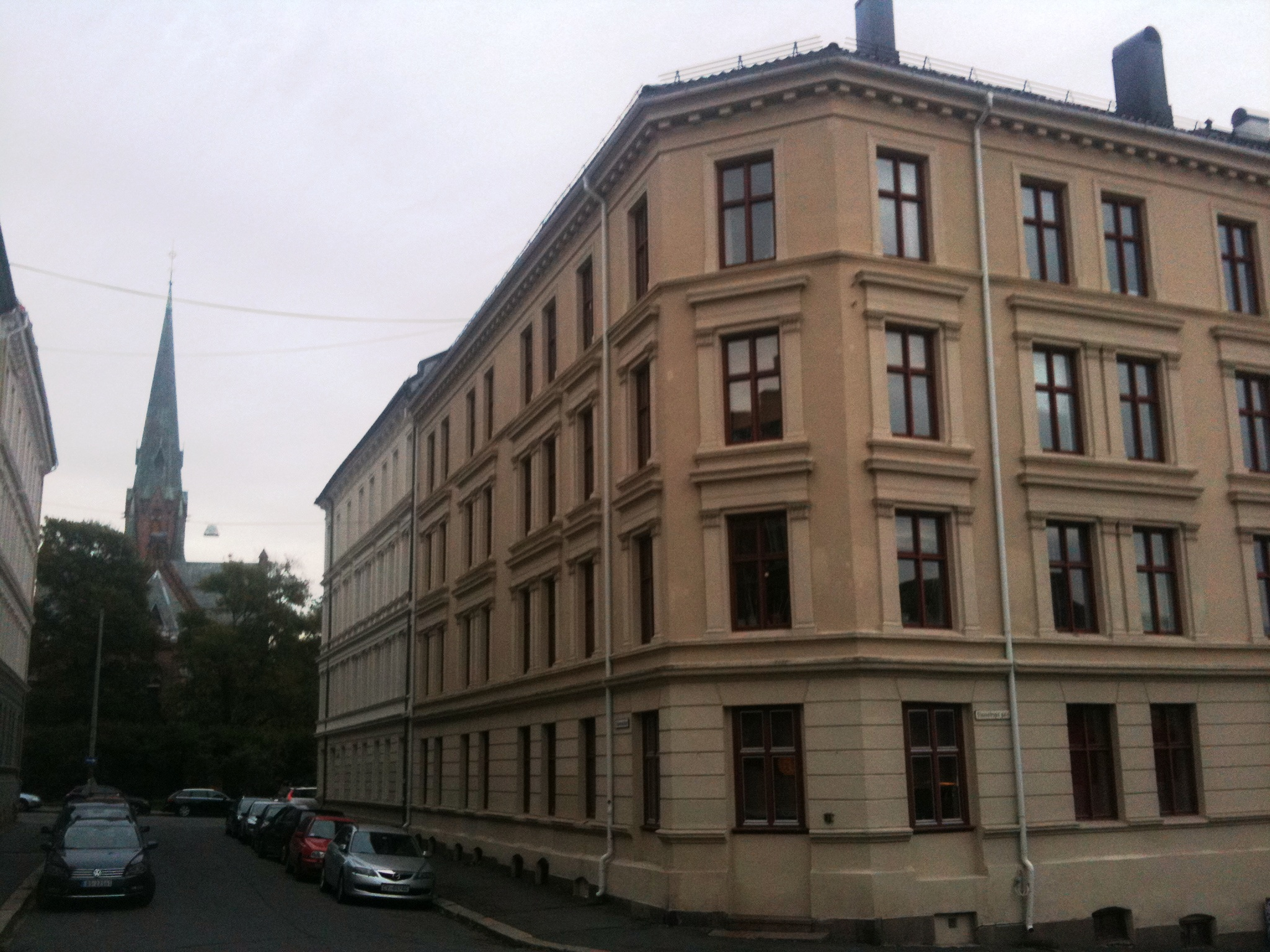 Dwelling department protected as architectural heritage site, part of a grand protection scheme covering several blocks around Birkelunden park in Grünerlökka, Oslo (Norway).